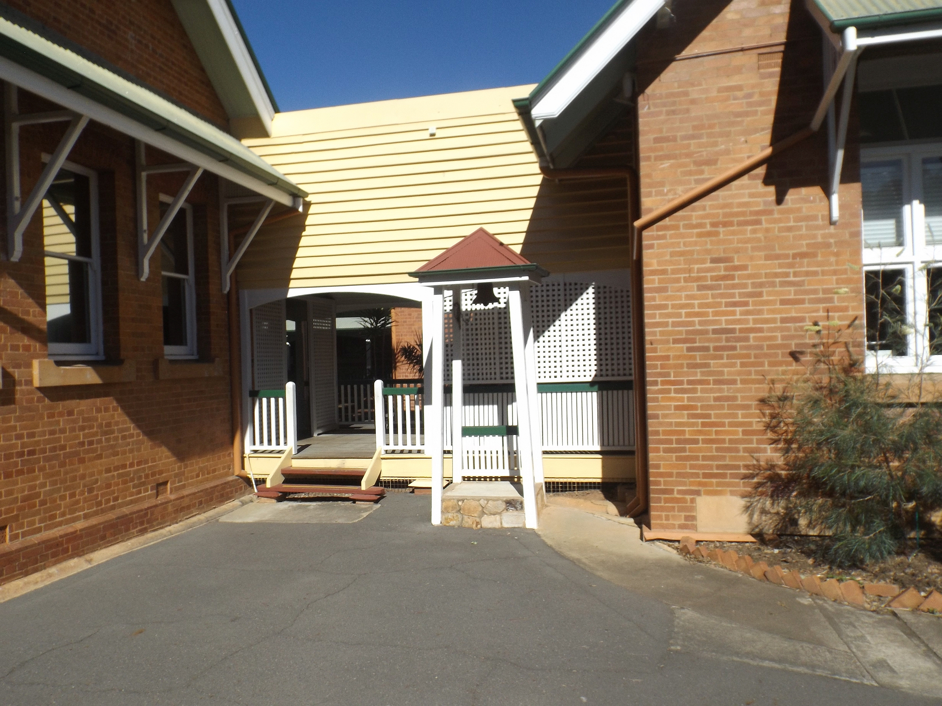 Photo of Ipswich West State School belfry at West Ipswich, City of Ipswich, Queensland, Australia.